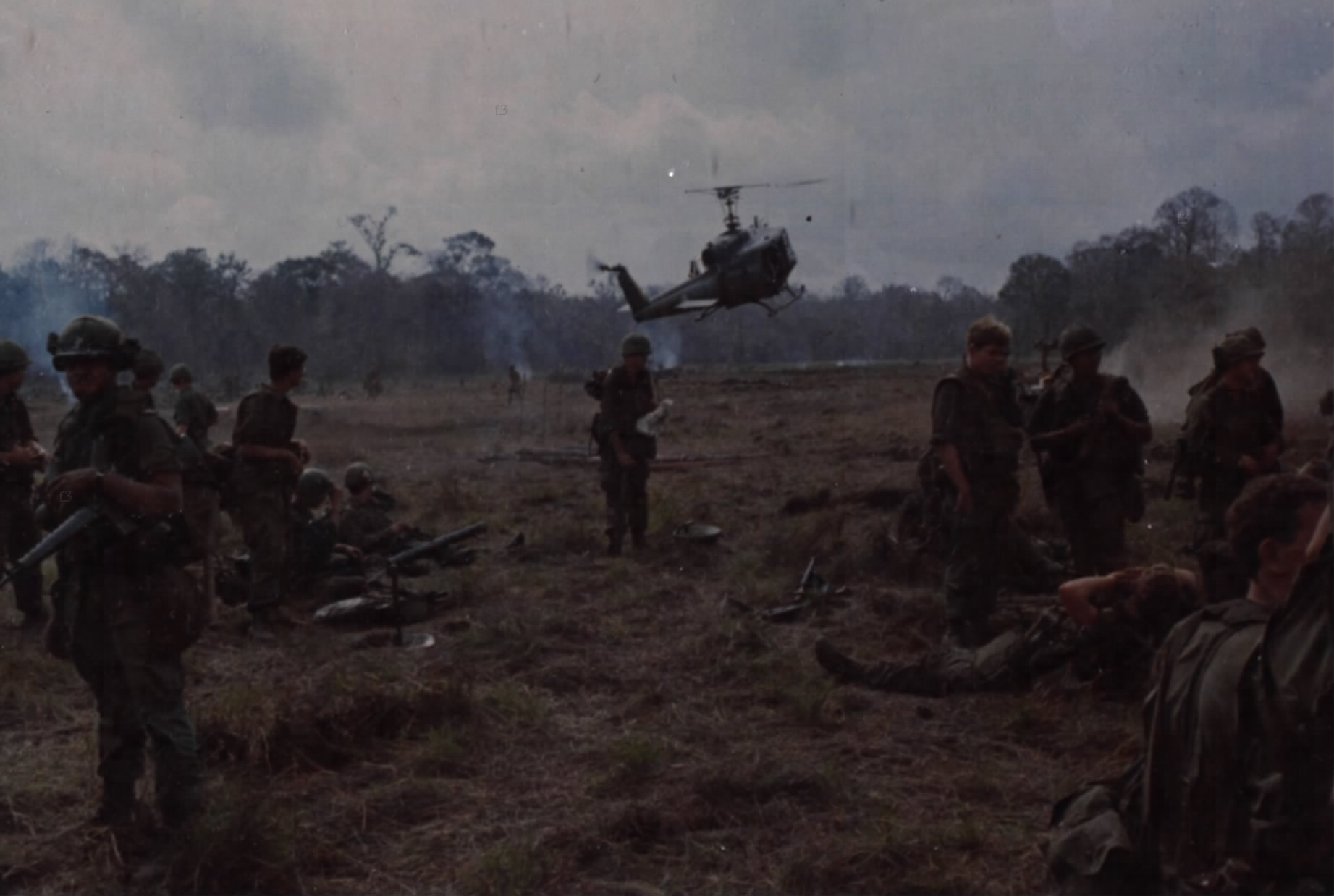 UH-1D helicopter prepares to land as members of Company "B", 4th Battalion, 31st Infantry, 196th Light Infantry Brigade stand by to be airlifted into an area suspected of being occupied by the Viet Cong during Operation Junction City, Phase II, approximately 40 km north of Tay Ninh City in War Zone "C".